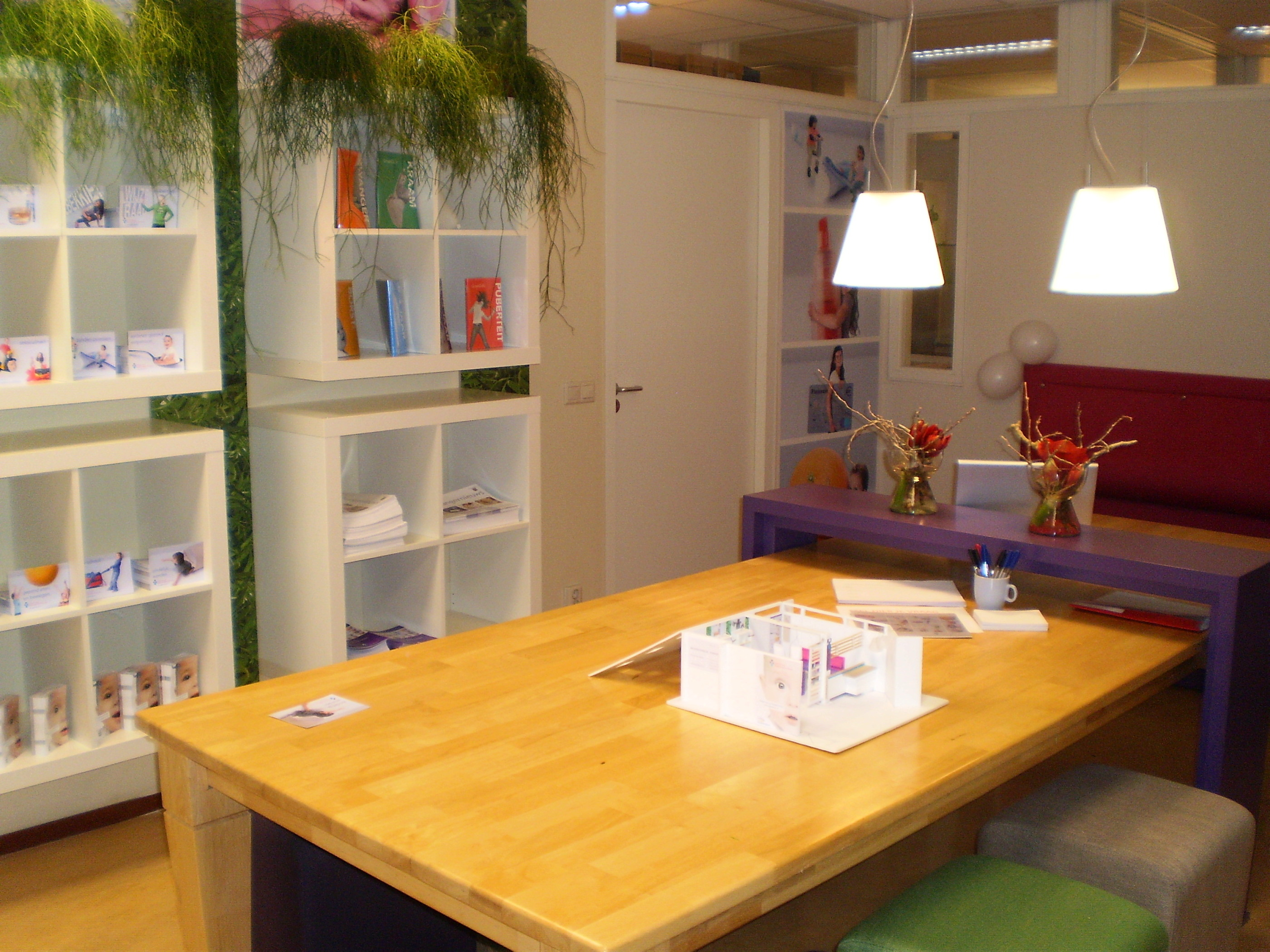 Inside the Youth and Family Centre, Hilversum South